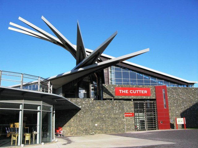 Inspiration for the design of this building, The Cutter at Woodhorn Colliery Museum came from the cutting machines used on the coal seams.